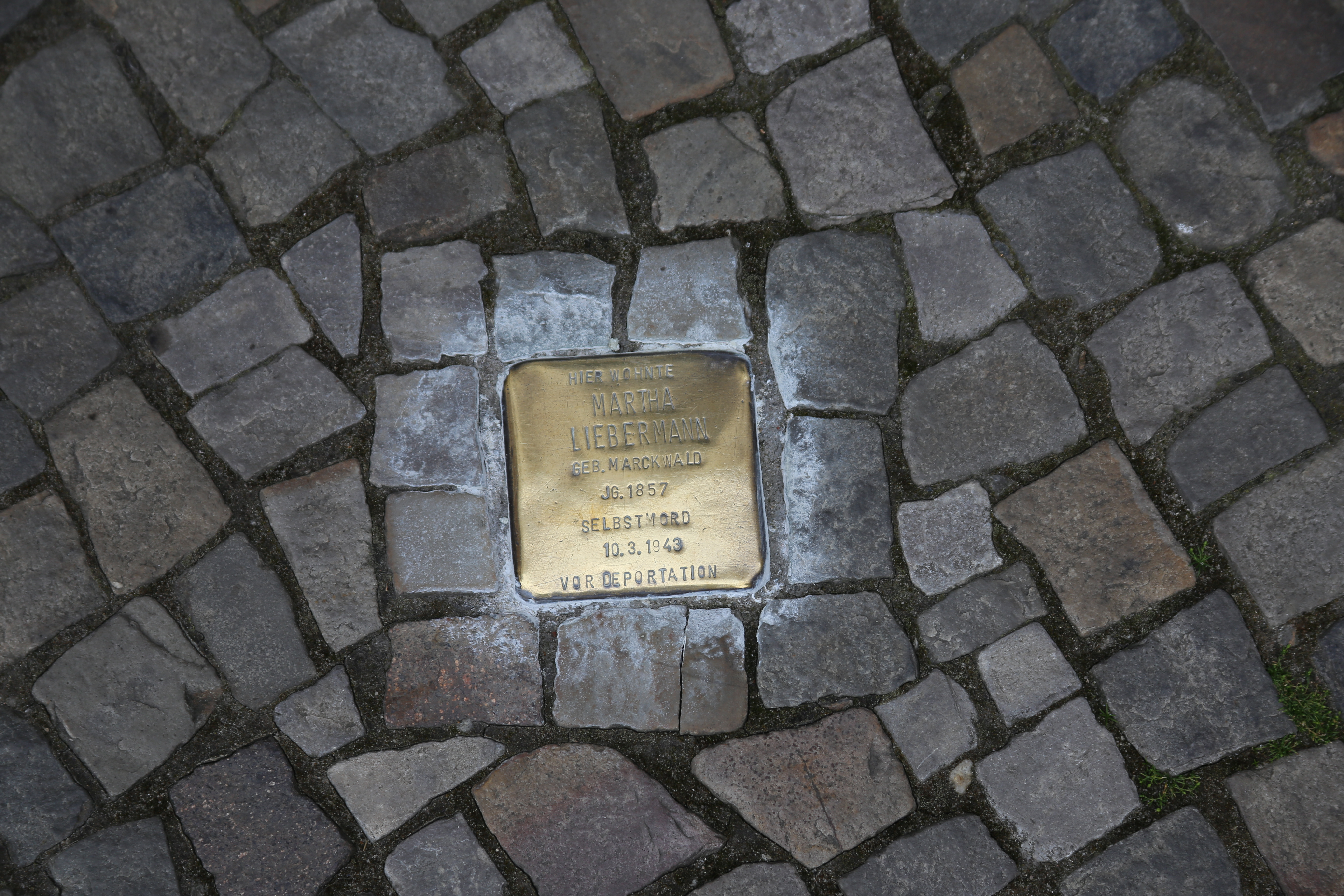 Stolperstein of Frau Martha Liebermann, wife of the artist Max Liebermann, in the Pariser Platz 7, Berlin-Mitte